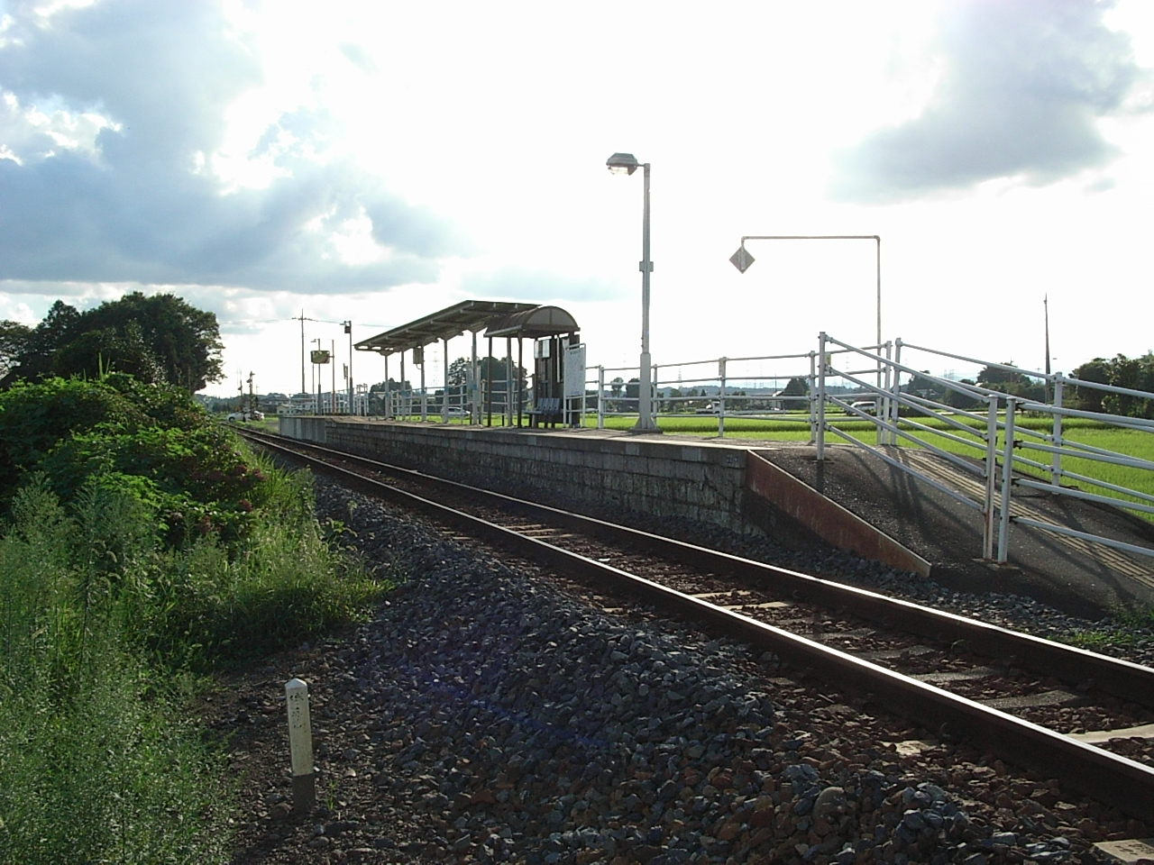 Shimotsuke-Hanaoka Station on JR Karasuyama Line. (1768,Hanaoka,Takanezawa-machi,Shioya-gun,Tochigi-ken,JAPAN)